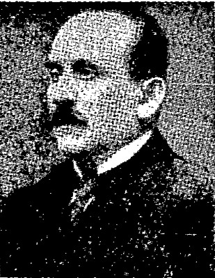 Dawid Schreiber